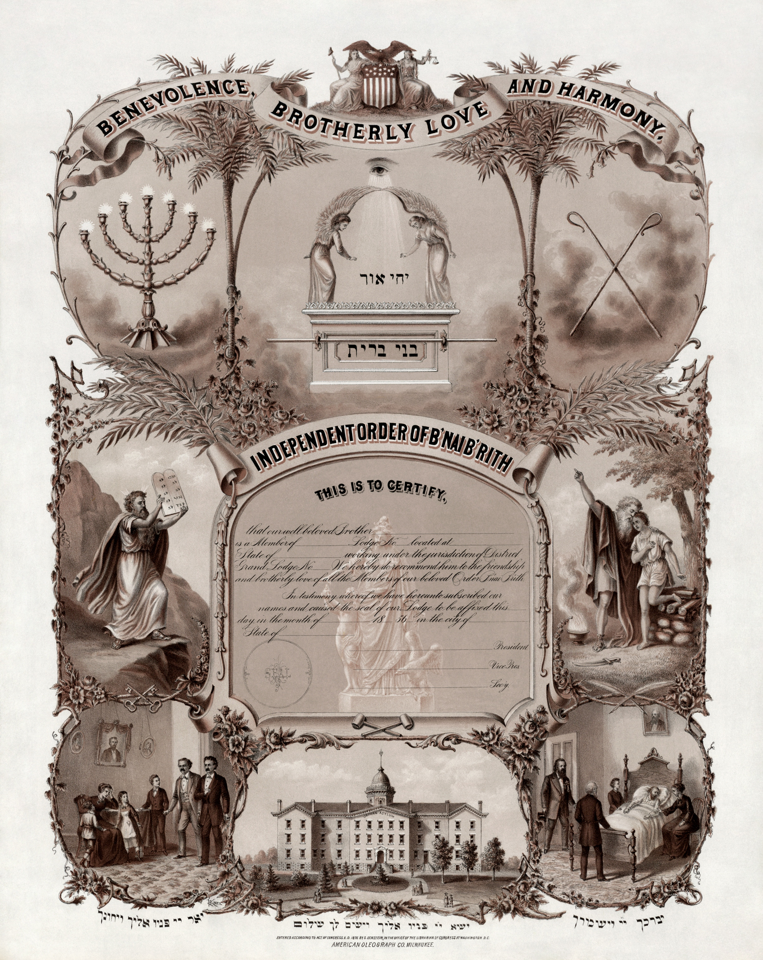 Blank membership certificate for the "Independent Order of B'nai B'rith". Beneath a banner labelled "Benevolence, Brotherly Love, and Harmony", a blank membership certificate is surrounded by vignettes of an orphan asylum, Moses, Abraham and Isaac, a menorah, domestic scenes, and others. Lithograph.